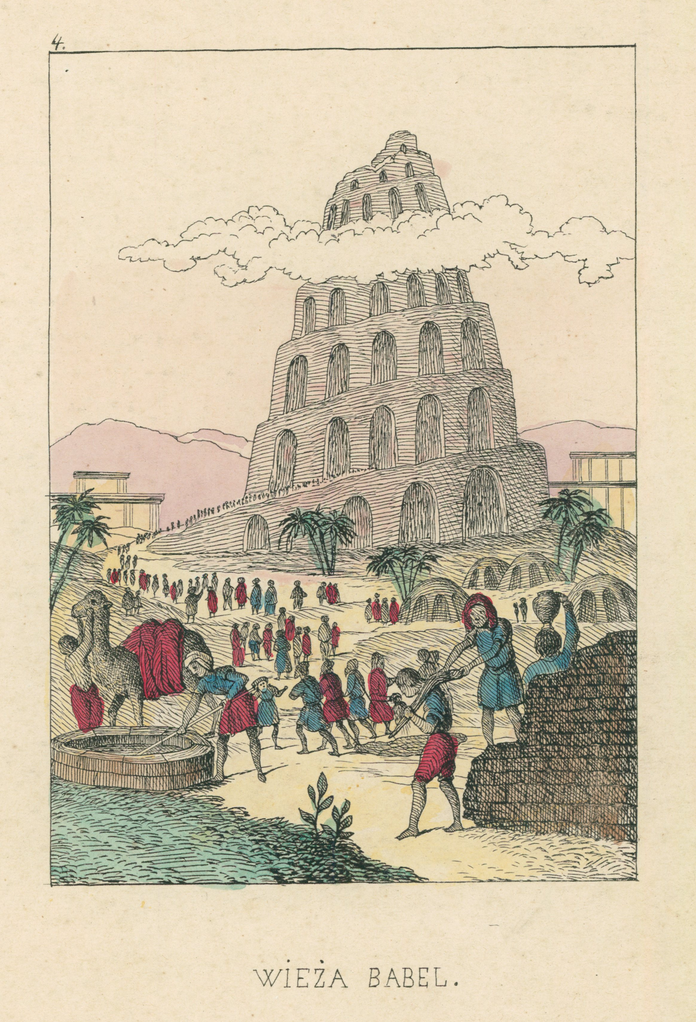 Wieża babel, grafika B. Stęczyńskiego, 1860 r.